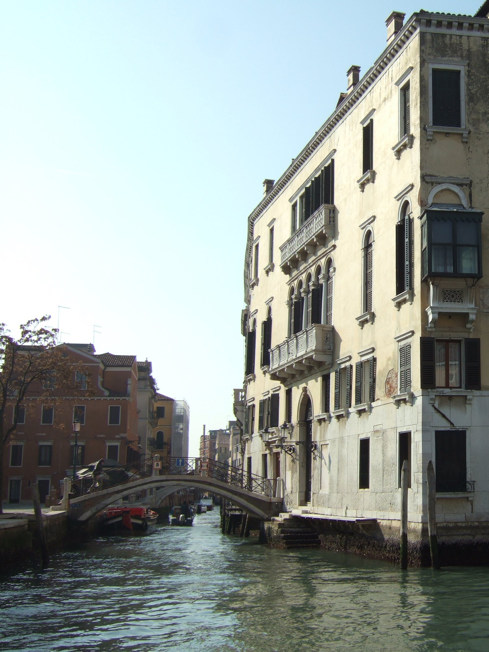 Rio de San Vio (Venice) at Campo San Vio / Canal Grande